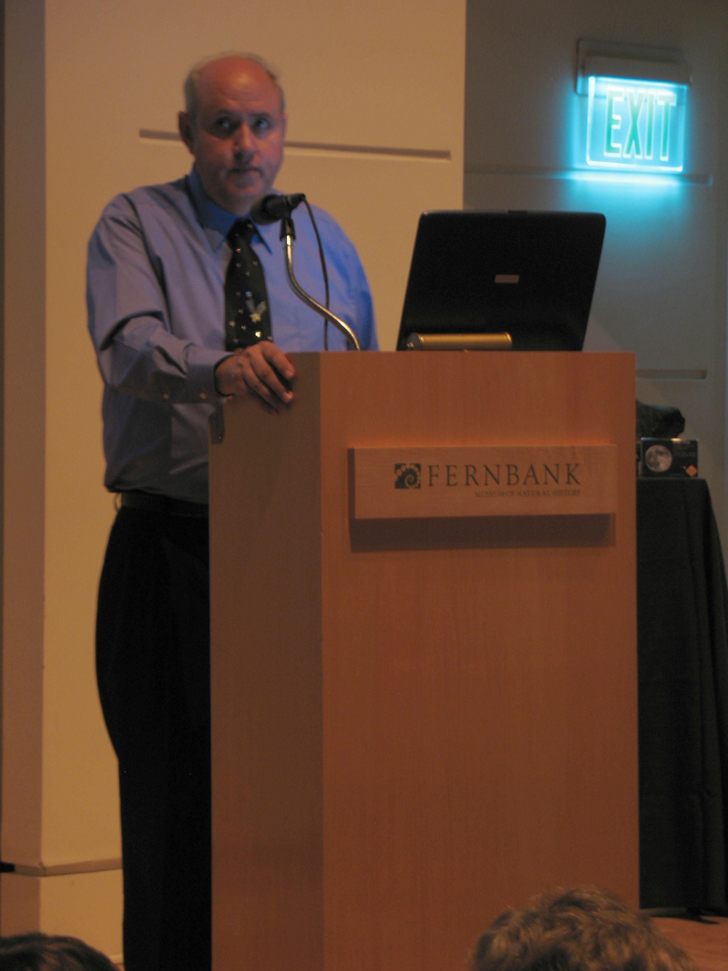 Thomas Bopp making a speech at Fernbank auditorium in 2010